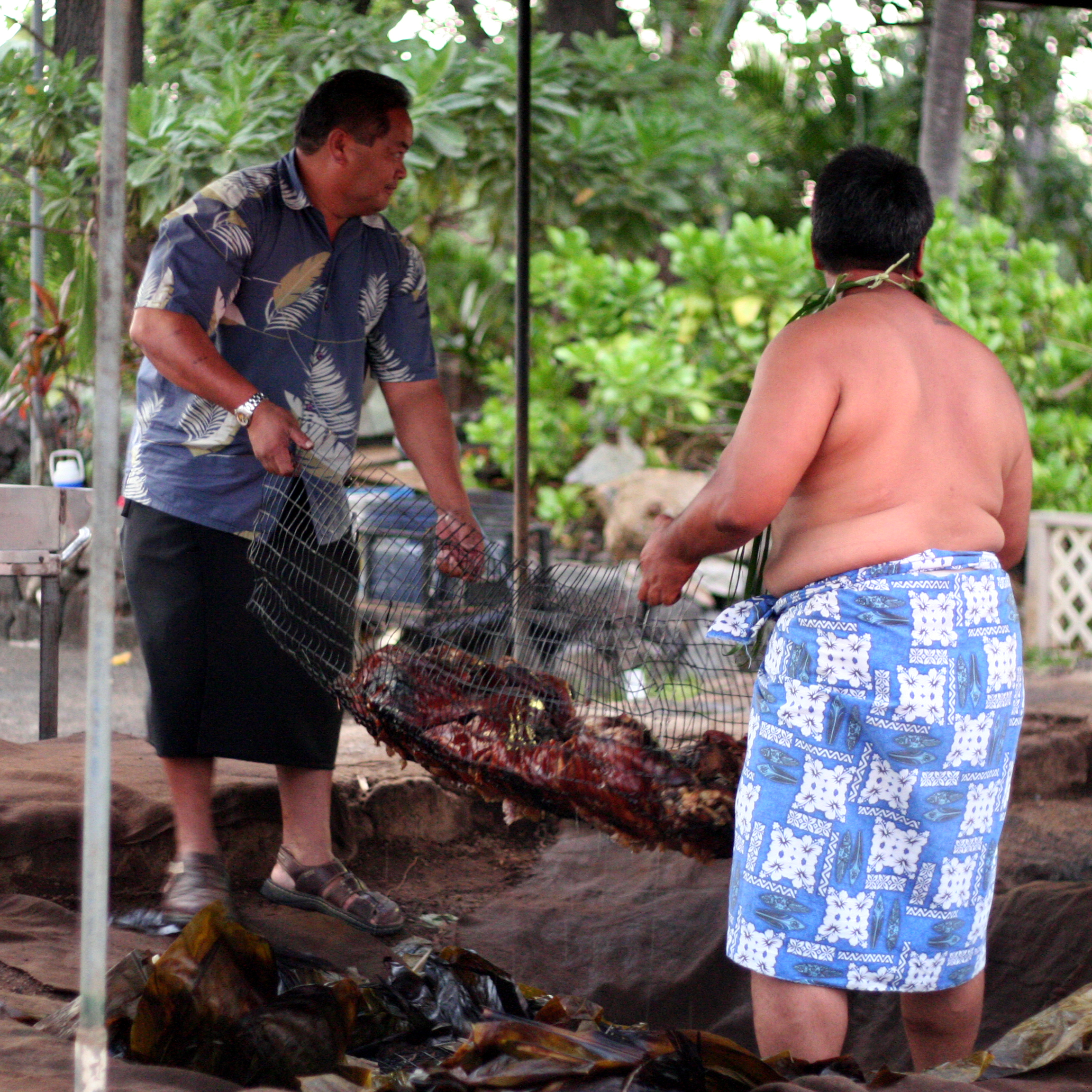 Roasted Pua'a, Kona, HI